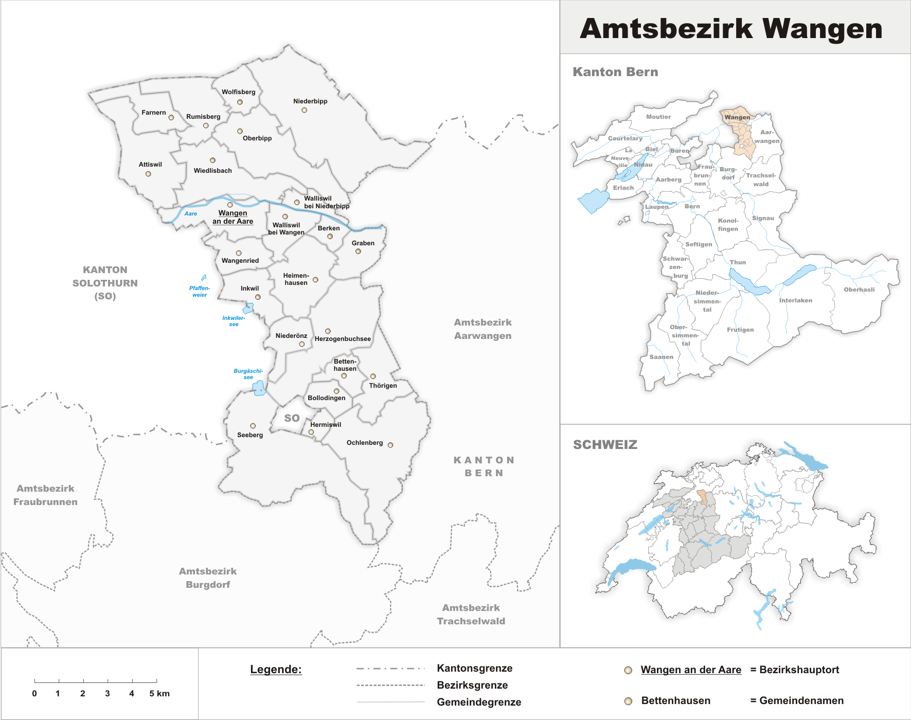 Municipalities in the district of Wangen to 2009